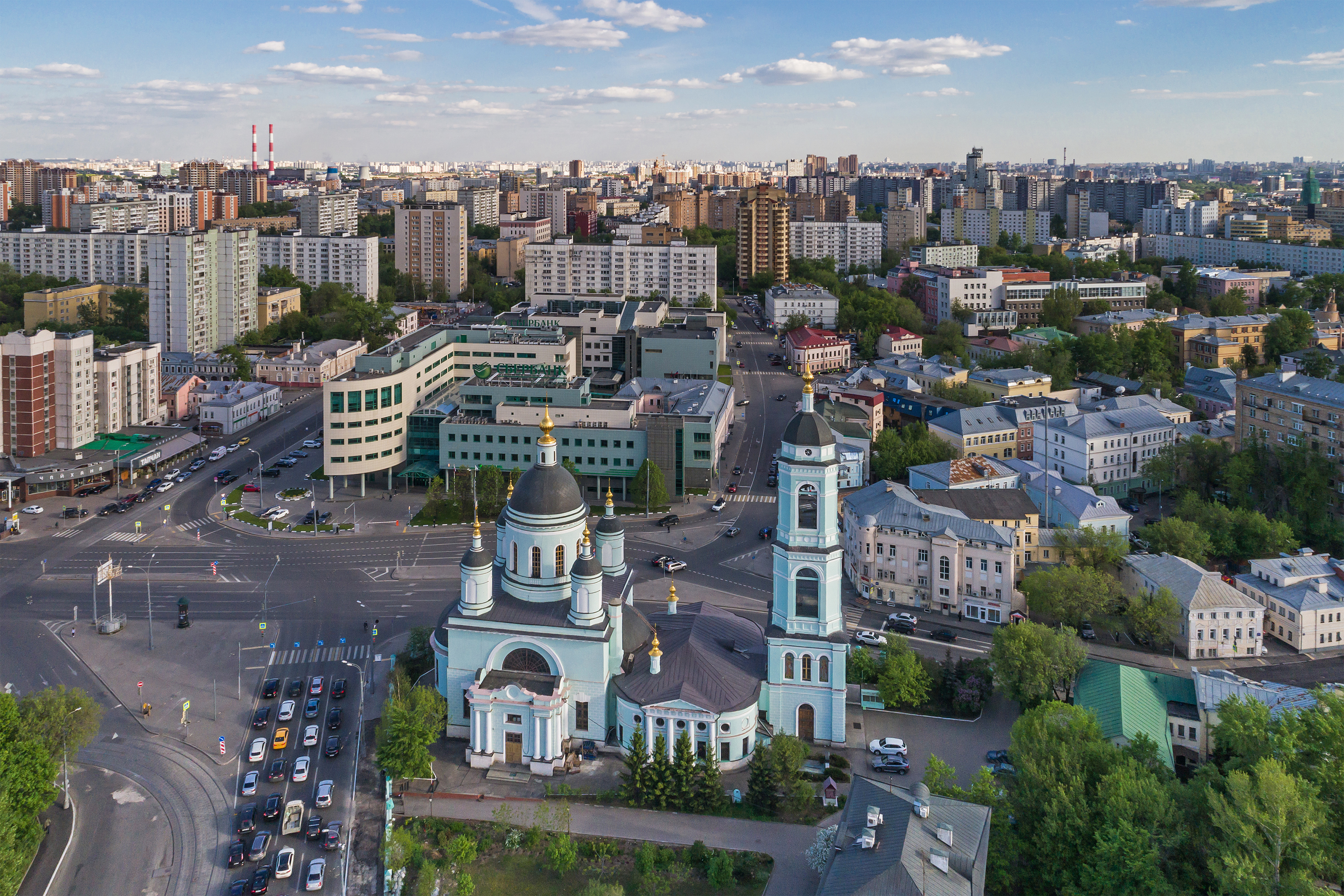 Aerial photo of Church of Sergius of Radonezh at Rogozhskaya Sloboda in Moscow (Russia).